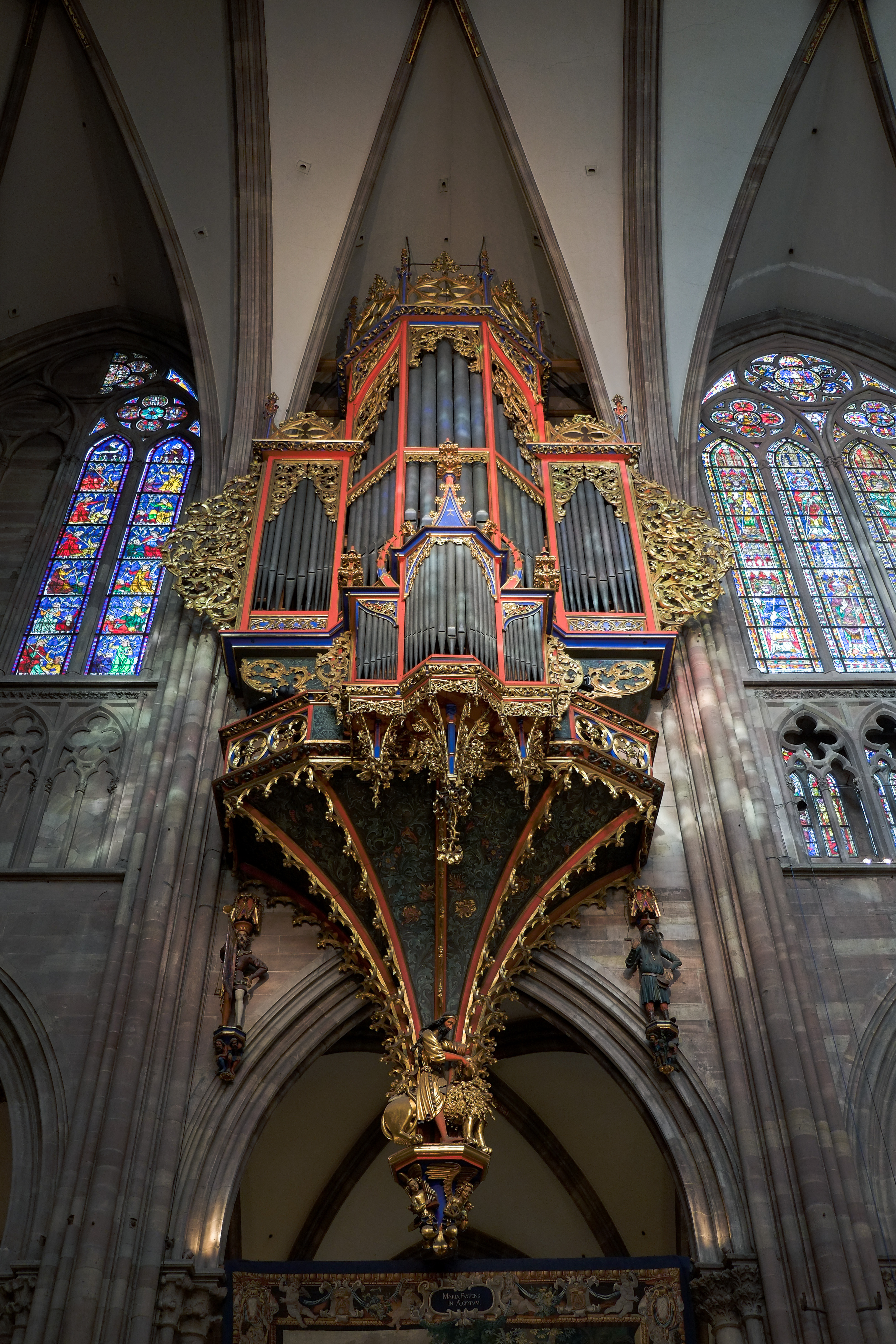 The Silbermann organ in Strasbourg cathedral, front view from below